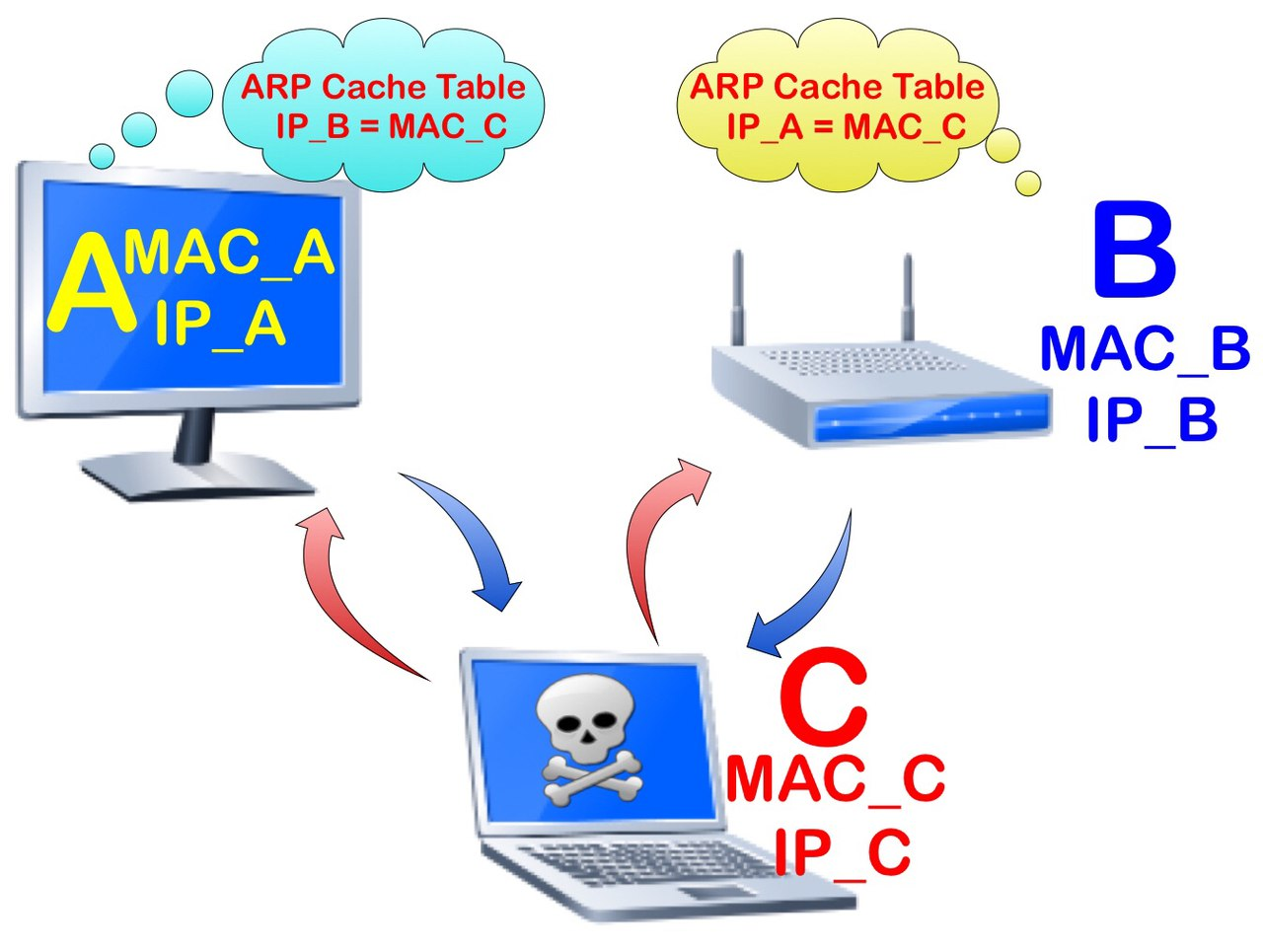 ARP Cache Poisoning